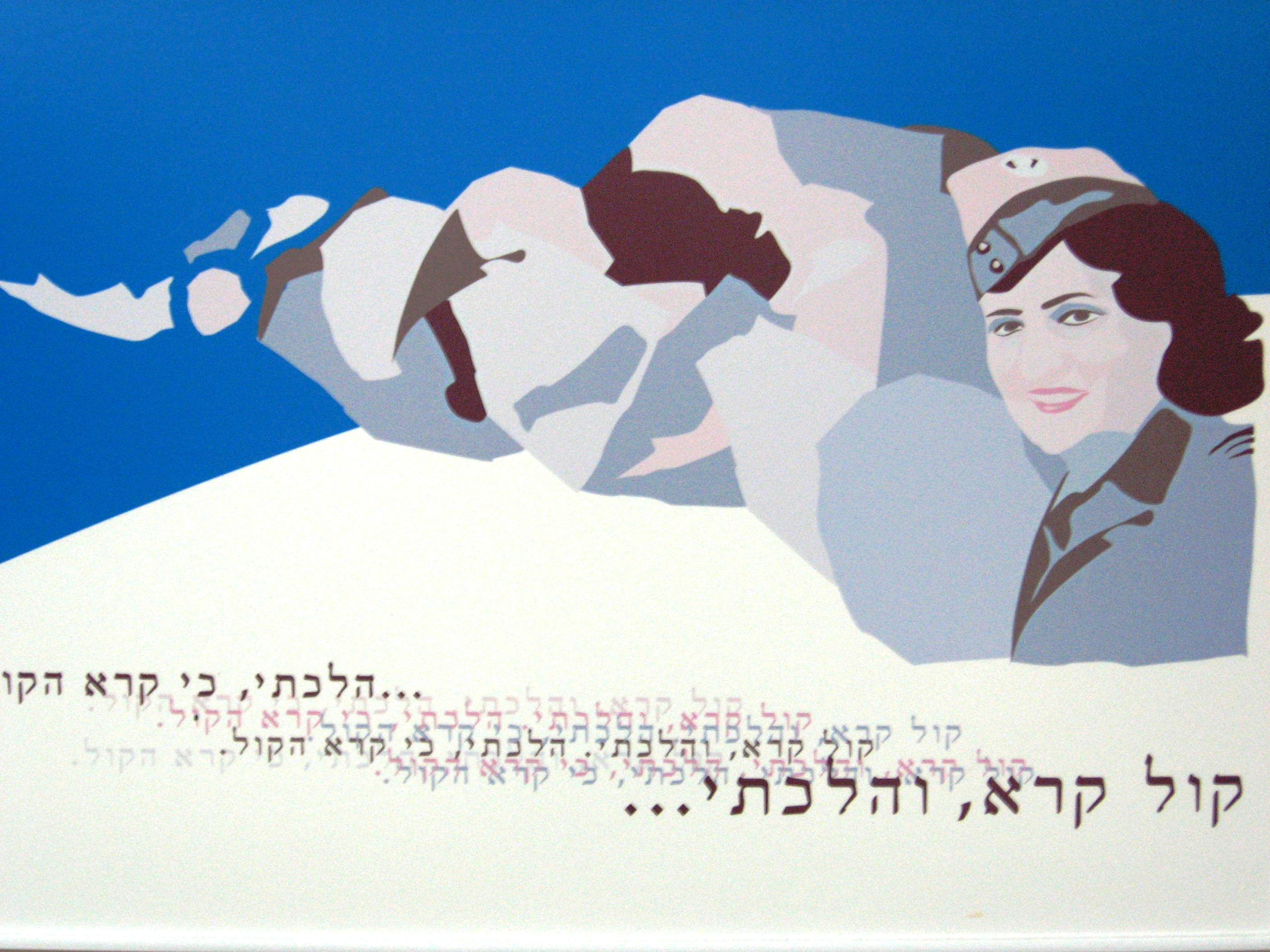 A poster in memory of Hannah Szenes, Geography of Israel